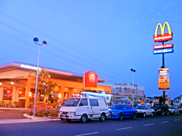 McDonald Drive Thru BP